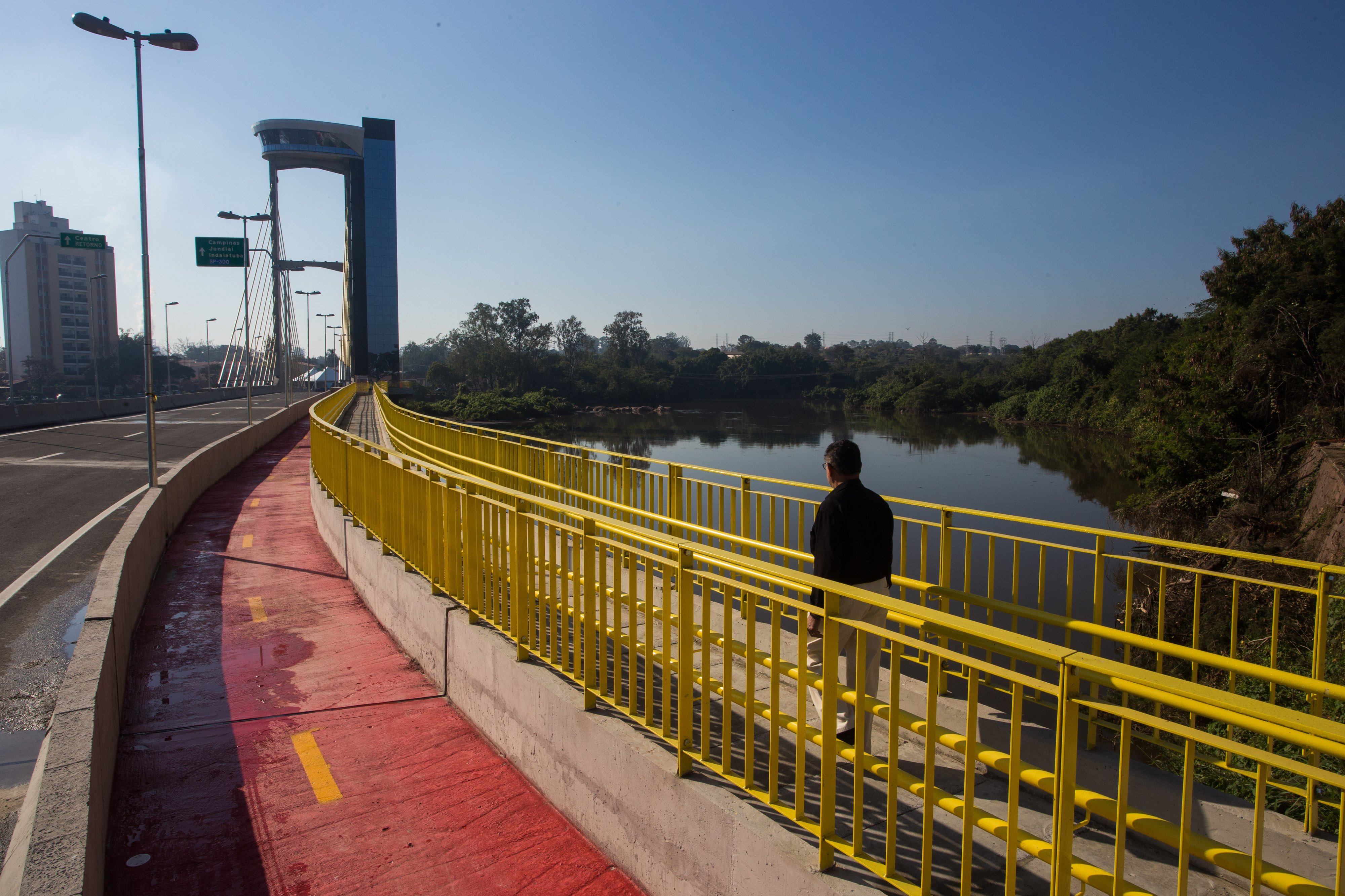 O Governador de São Paulo, entregou a ponte estaiada com um mirante para ajudar no desenvolvimento do turismo na região . 16/06/2016 - Salto - Foto: Eduardo Saraiva/A2IMG